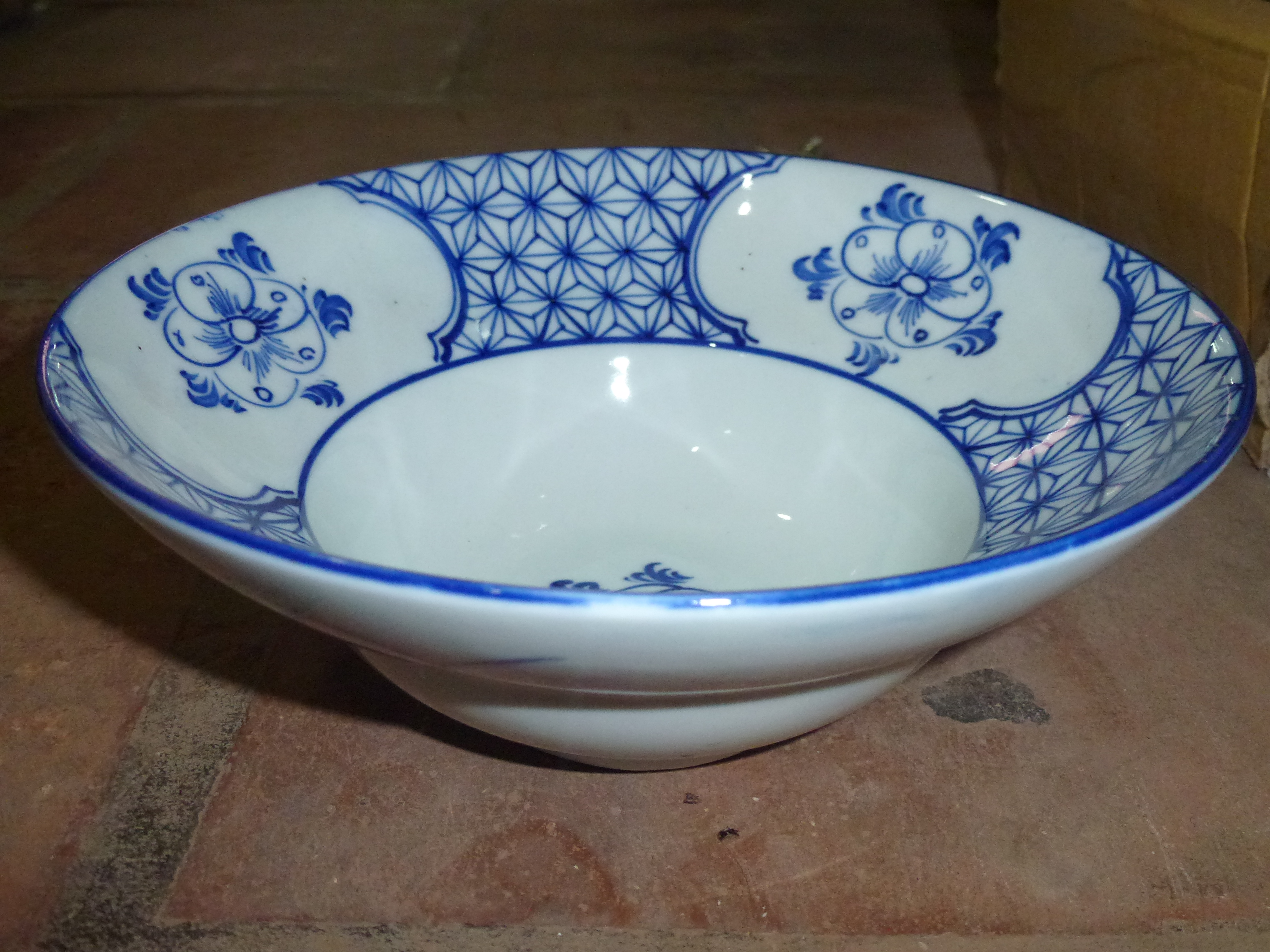 Slender-waisted bowl (a Vietnamese type of bowl)